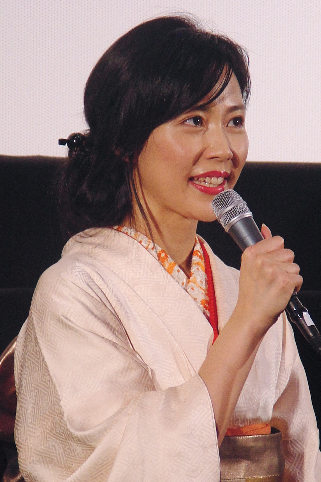 Japanese actress Yoshino Kimura at Tokyo International Film Festival, 22 October 2005